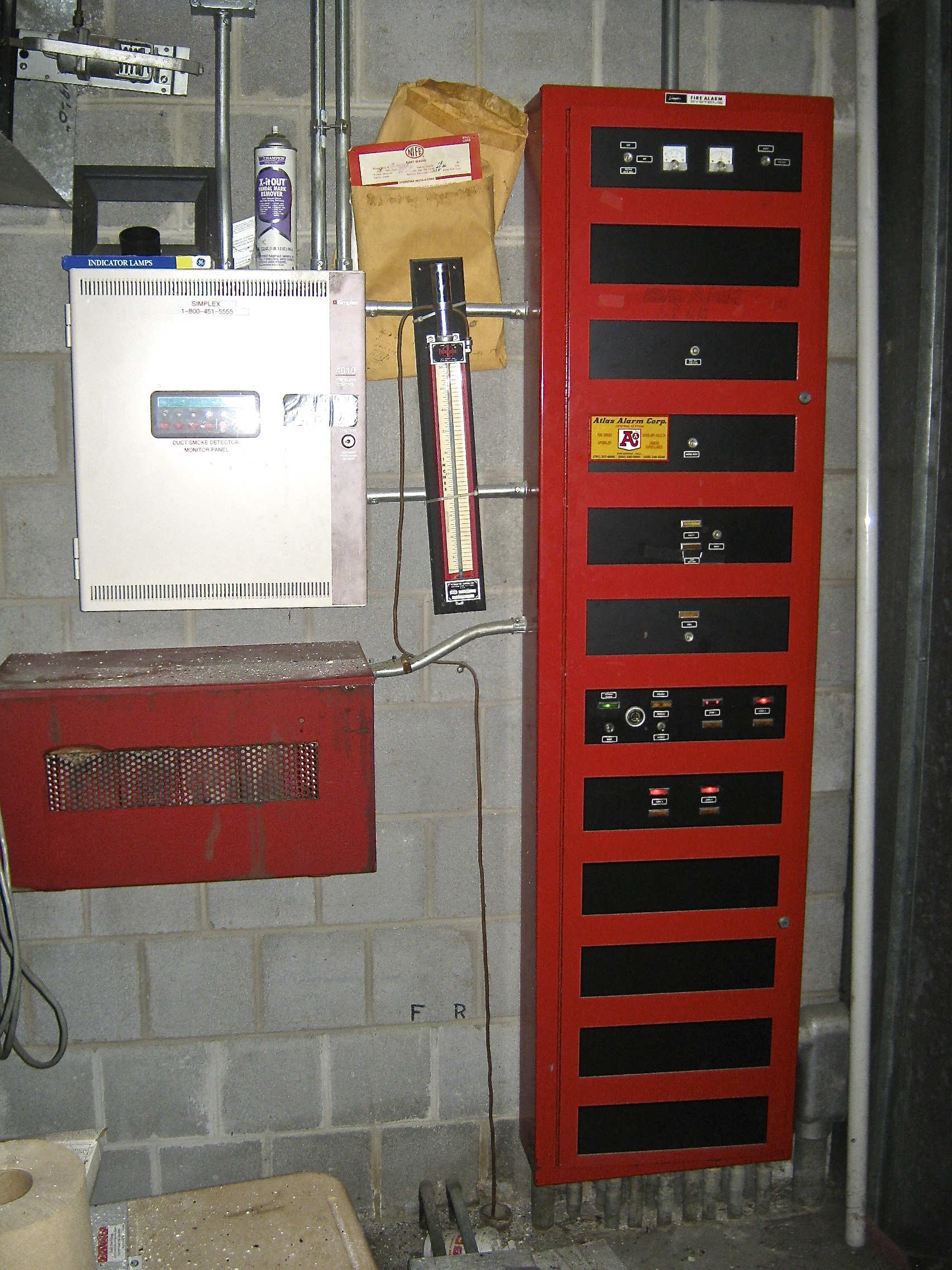 Simplex 4010 fire alarm system tied into an older Simplex 4208 panel. This was taken at the Edgar B. Davis K-8 School in Brockton, MA